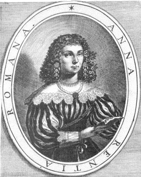 1644 engraving made after a contemporary portrait of Anna Renzi (c.1620-after 1659)